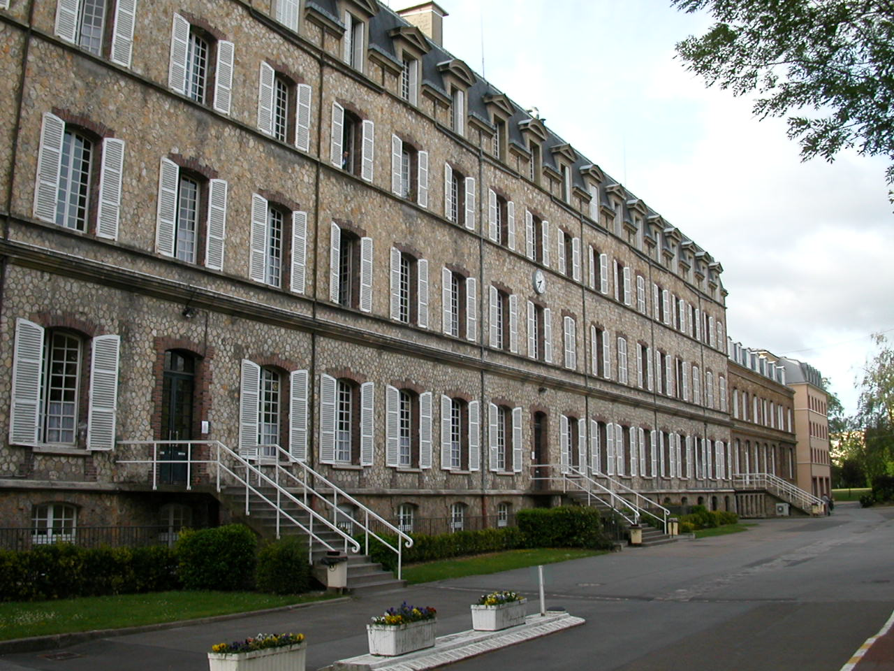 A building of Lycée Sainte-Geneviève (Versailles, France)